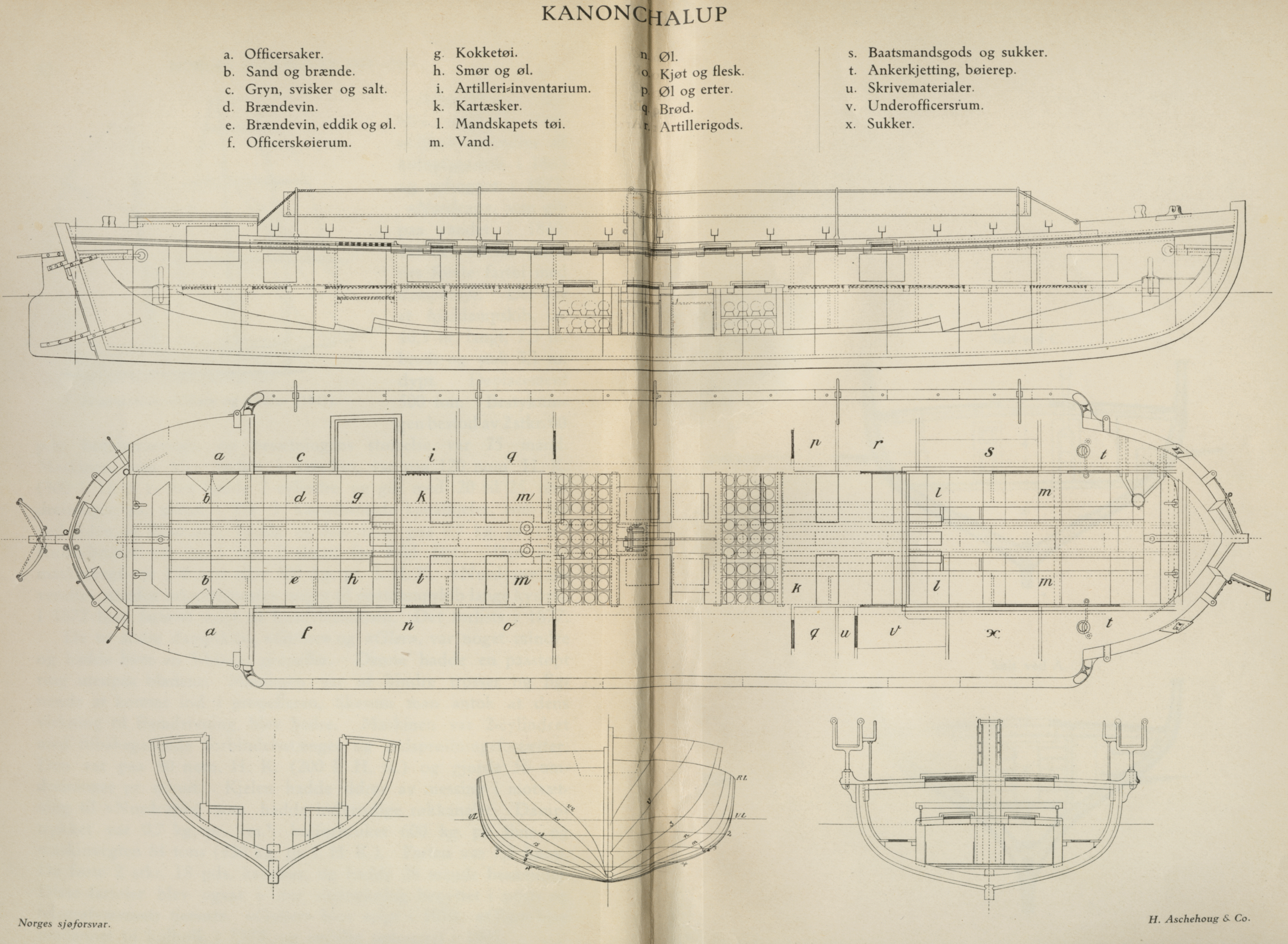 Drawing of "kanonchalup" from the Norwegian Navy, built in large numbers from 1600s-1800s. Carrying two large cannons, powered by oars or sail, these vessels could pose a serious threat even to larger vessels like frigates, when operating together i gropus of three or four. No: Kanonsjalupp, kanonchalup, kanonchalupp.